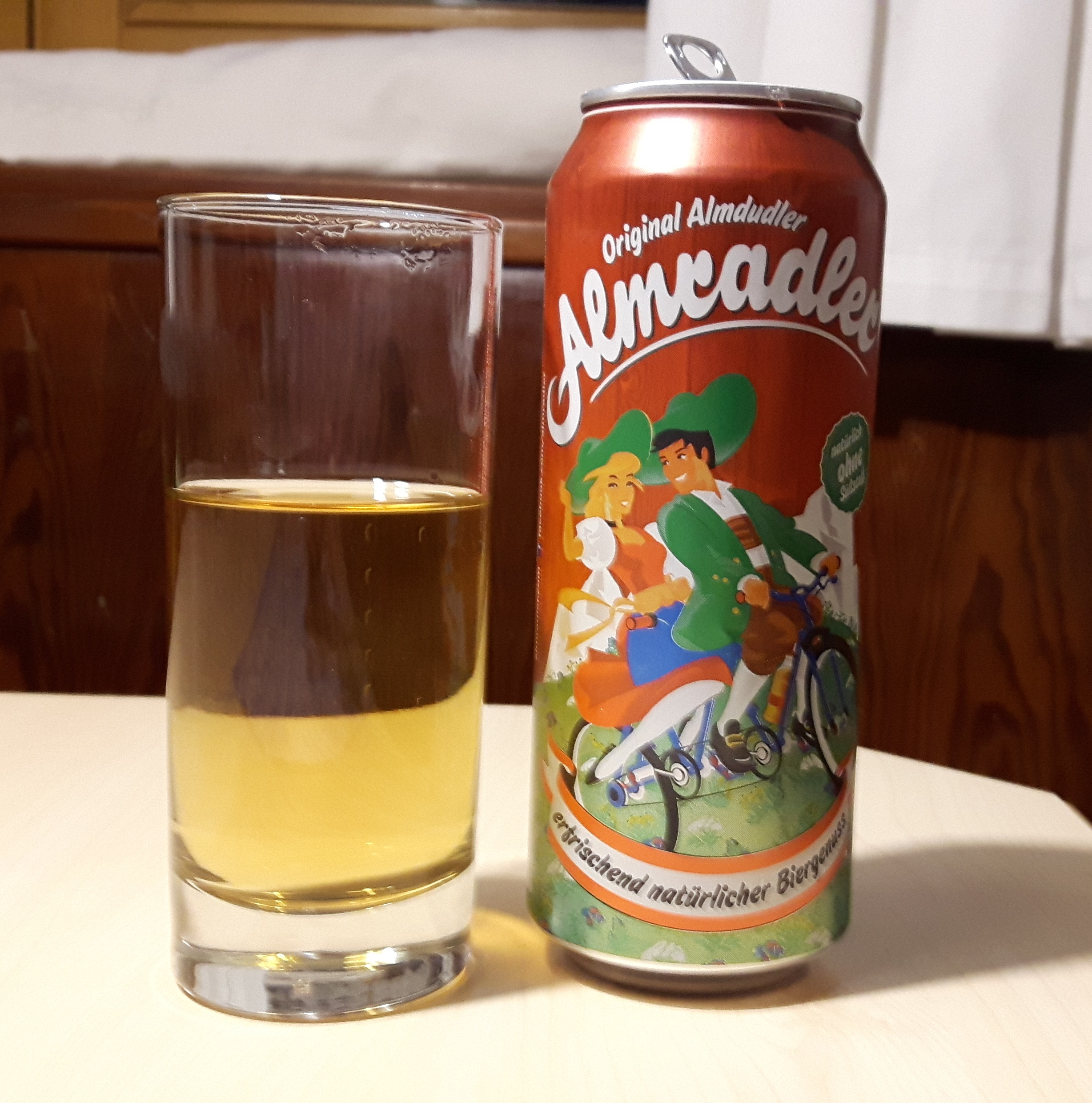 Almradler (.50 liter can + unrelated glass)